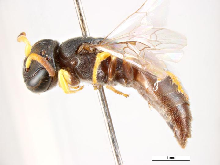 Pachyprosopis eucalypti male